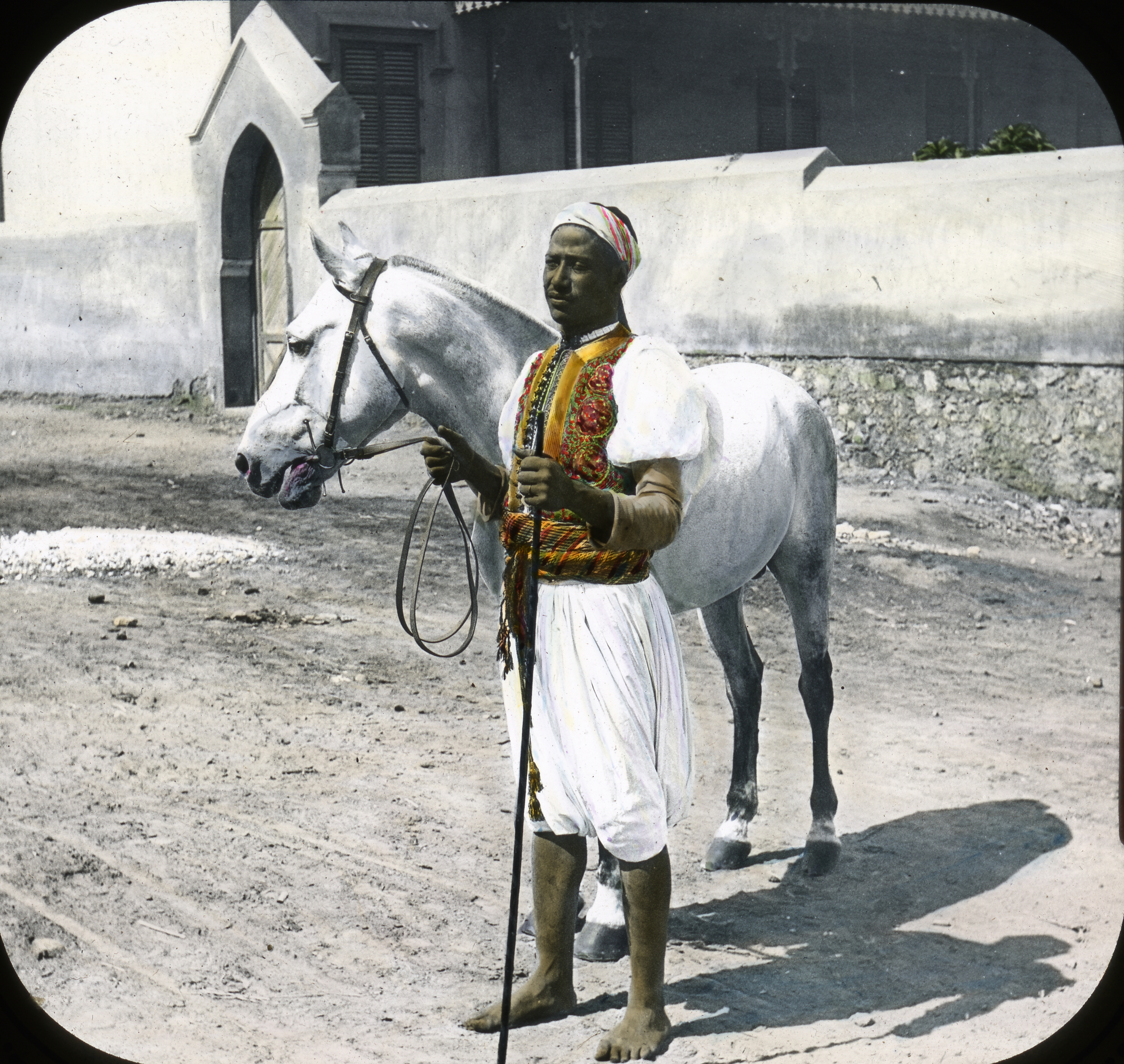 Lantern Slide Collection: Views, Objects: Egypt. General Views\People [selected images]. View 013: Egypt - Arabian Horse and Sais, Cairo., n.d.